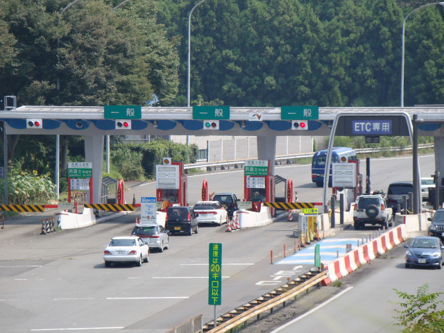 Nishifuji toll gate